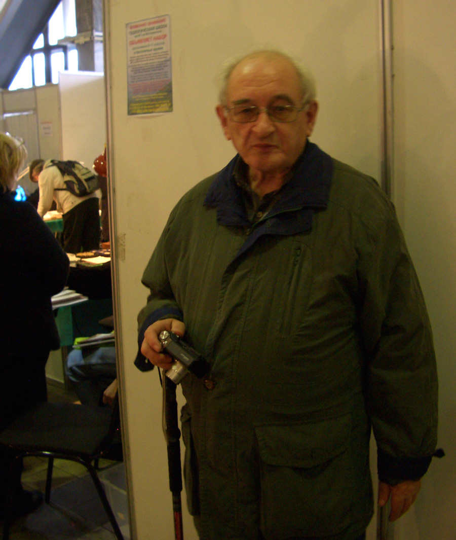 Boris Kantor. Fair Gemma, Moscow, 2009